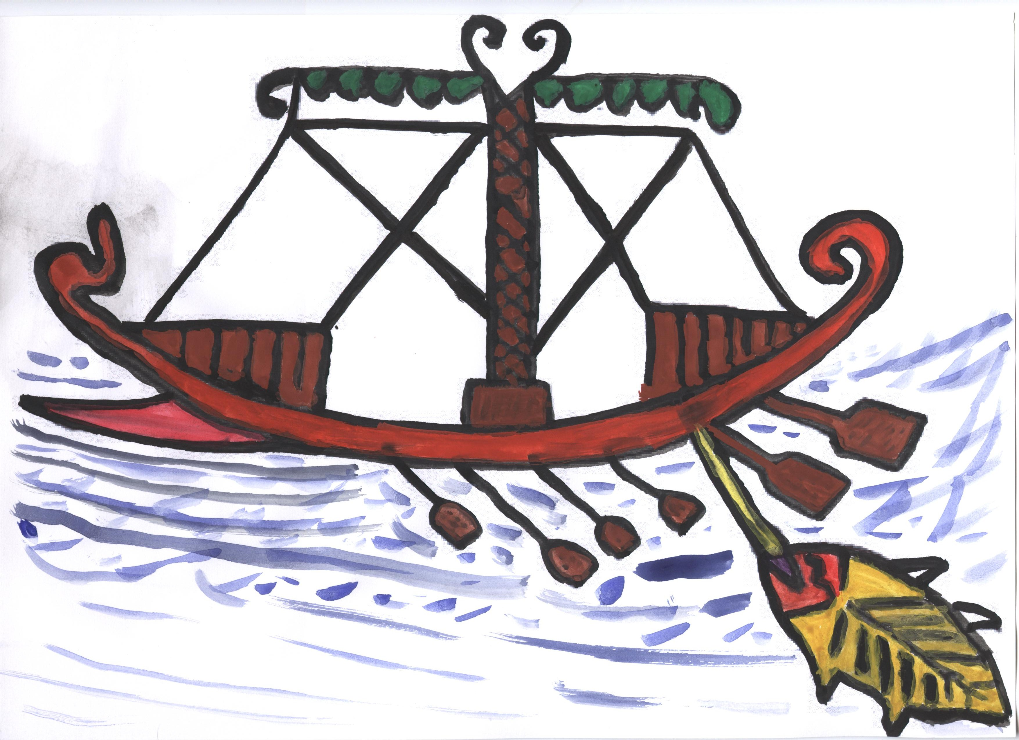 Etruscan ship of - VII century